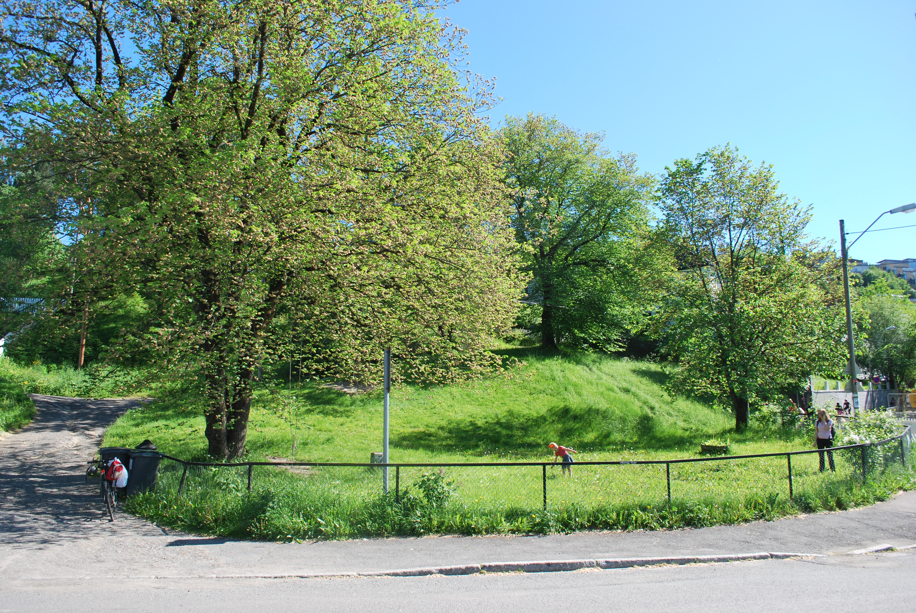 Kværnerparken, Kværner neighbourhood, Oslo, seen from Eirik Raudes vei